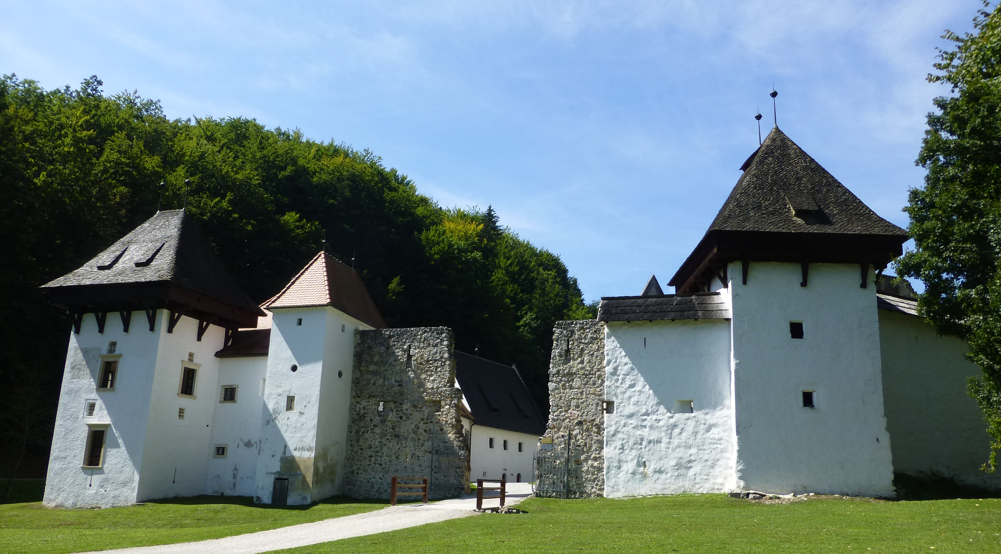 Žiče Charterhouse after a major renovation in 2015, main entry side.